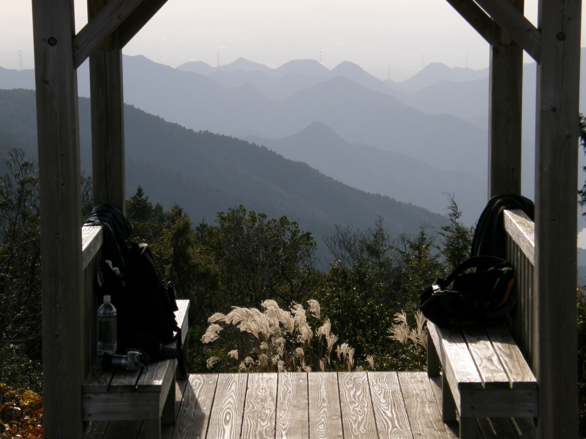 Mt.Saikoji